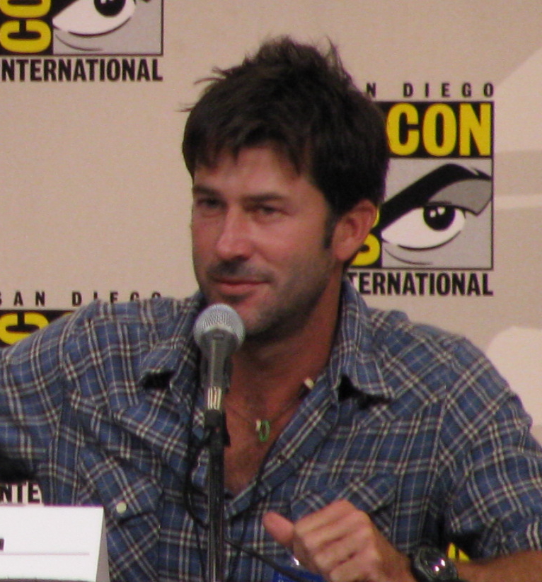 Joe Flanigan at Comic Con 2008